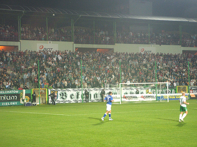 Stadium of GKS Bełchatów - south stand (autor: Piotr Baranowski